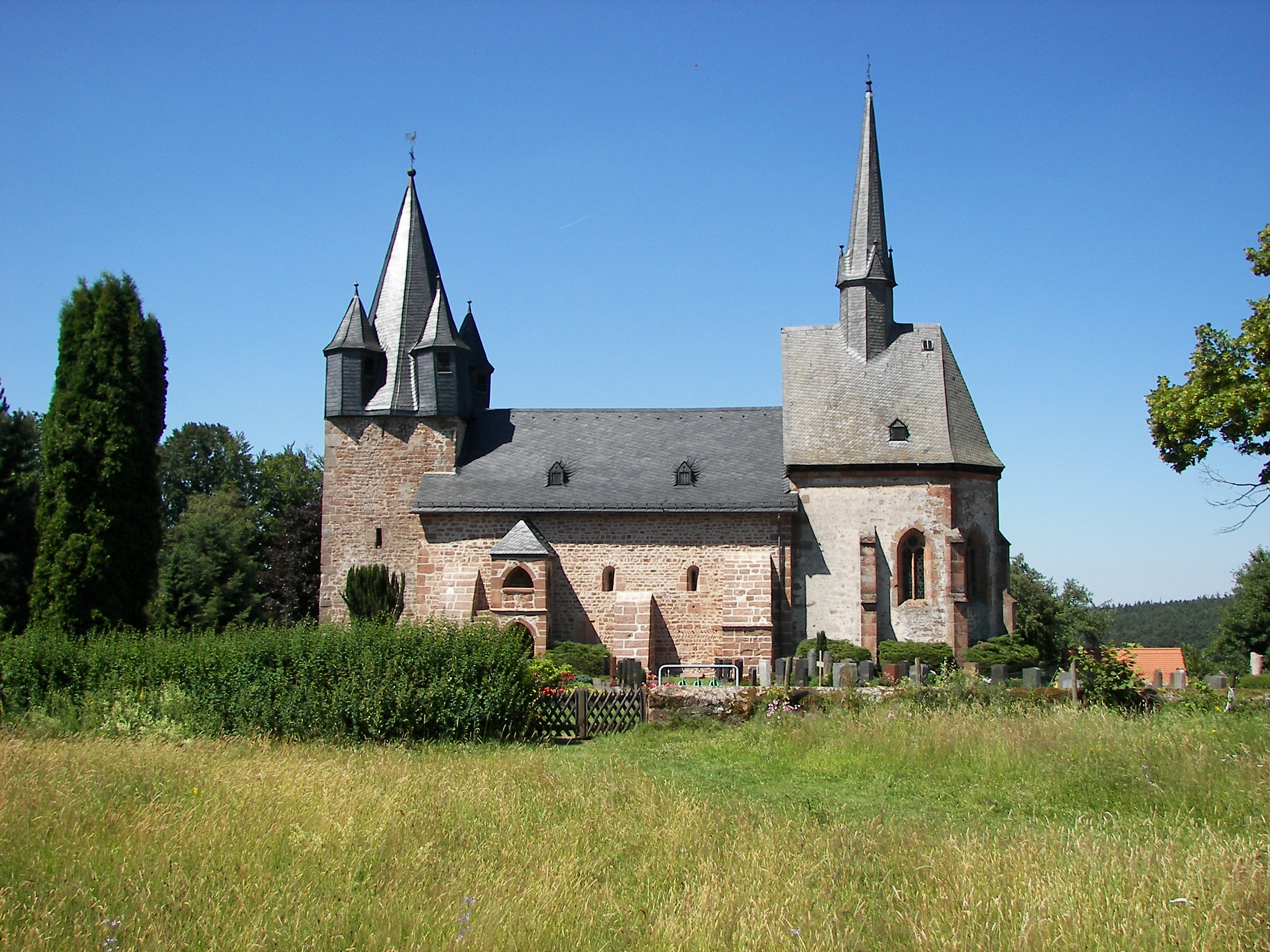 Christenberg, Kirche Saint Martin's church on Christenberg hill near Münchhausen, Germany. A few rows of herring-bone masonry can be seen in the lower part of the wall of the nave